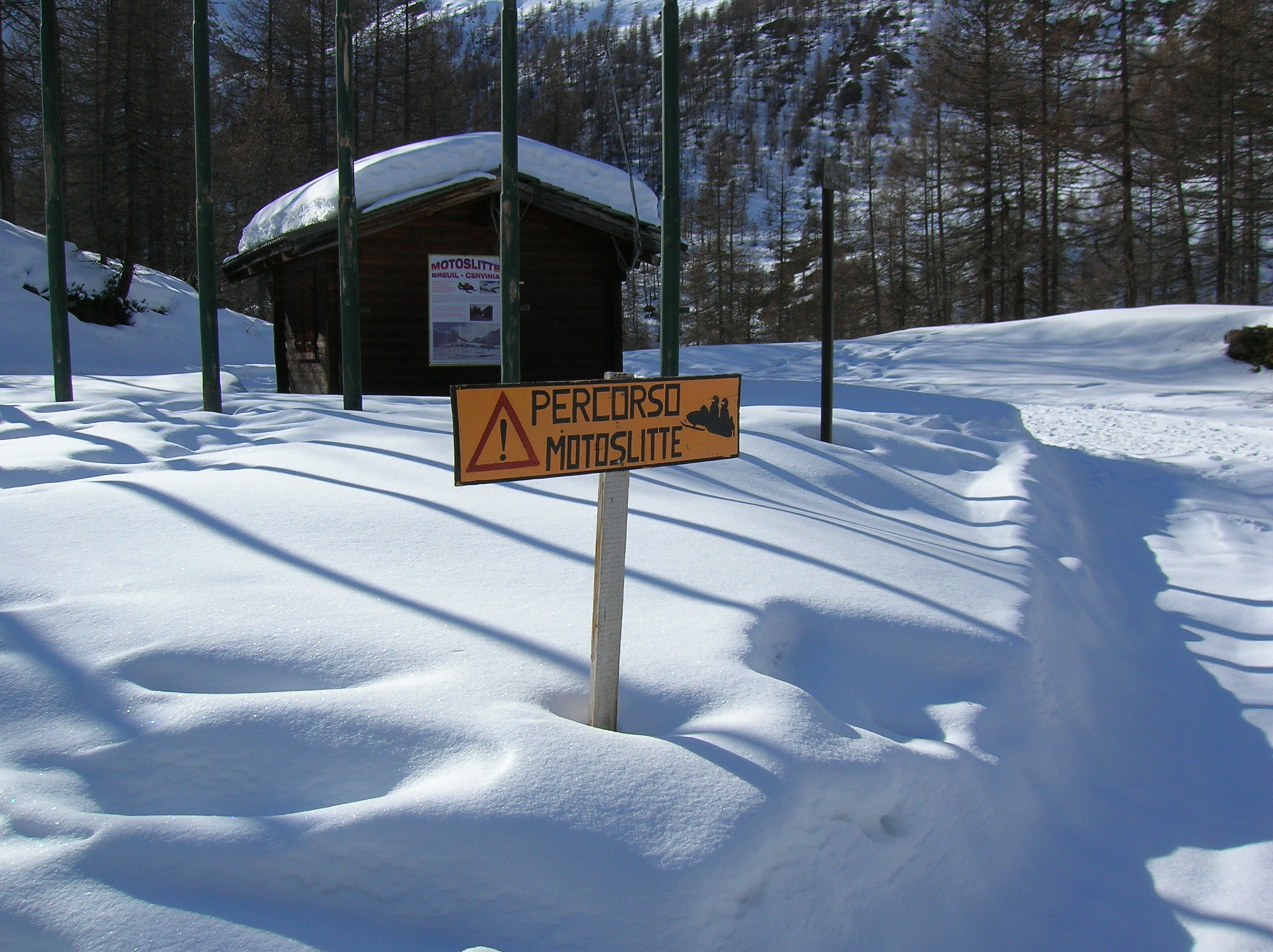 Snowmobile panel in Breuil-Cervinia, Aosta Valley, Italy.